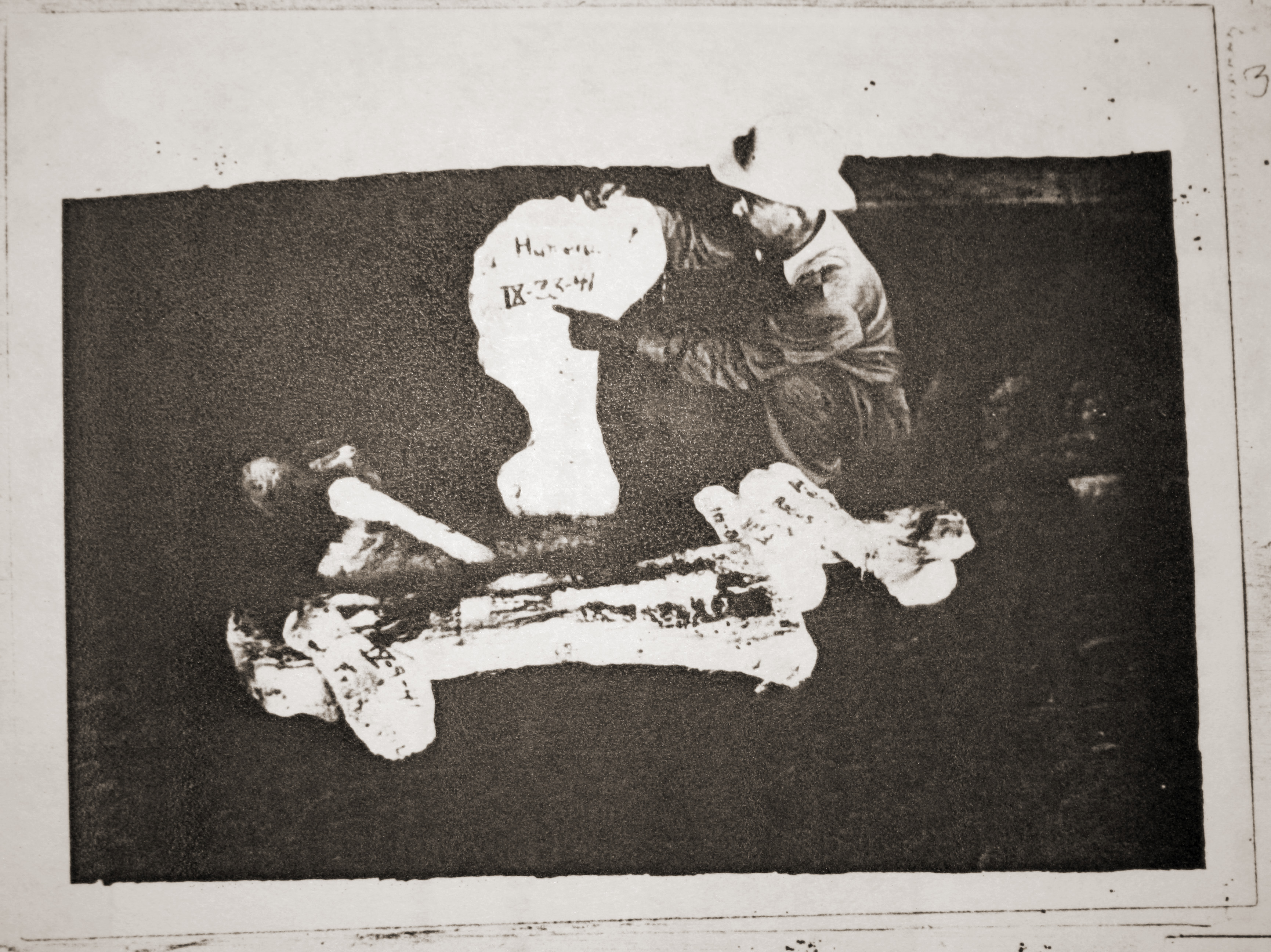 Photograph from the archives of the Sam Noble Museum in Oklahoma showing the Titanoceratops skeleton in plaster field jackets. The humerus is being held up. The big bone on the ground is probably a femur. The person in the photo is presumably J. Willis Stovall, who along with Wann Langston and Donald Savage collected the skeleton.